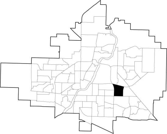 A map showing the location of the College Park neighbourhood in relation to the other neighbourhoods in Saskatoon.